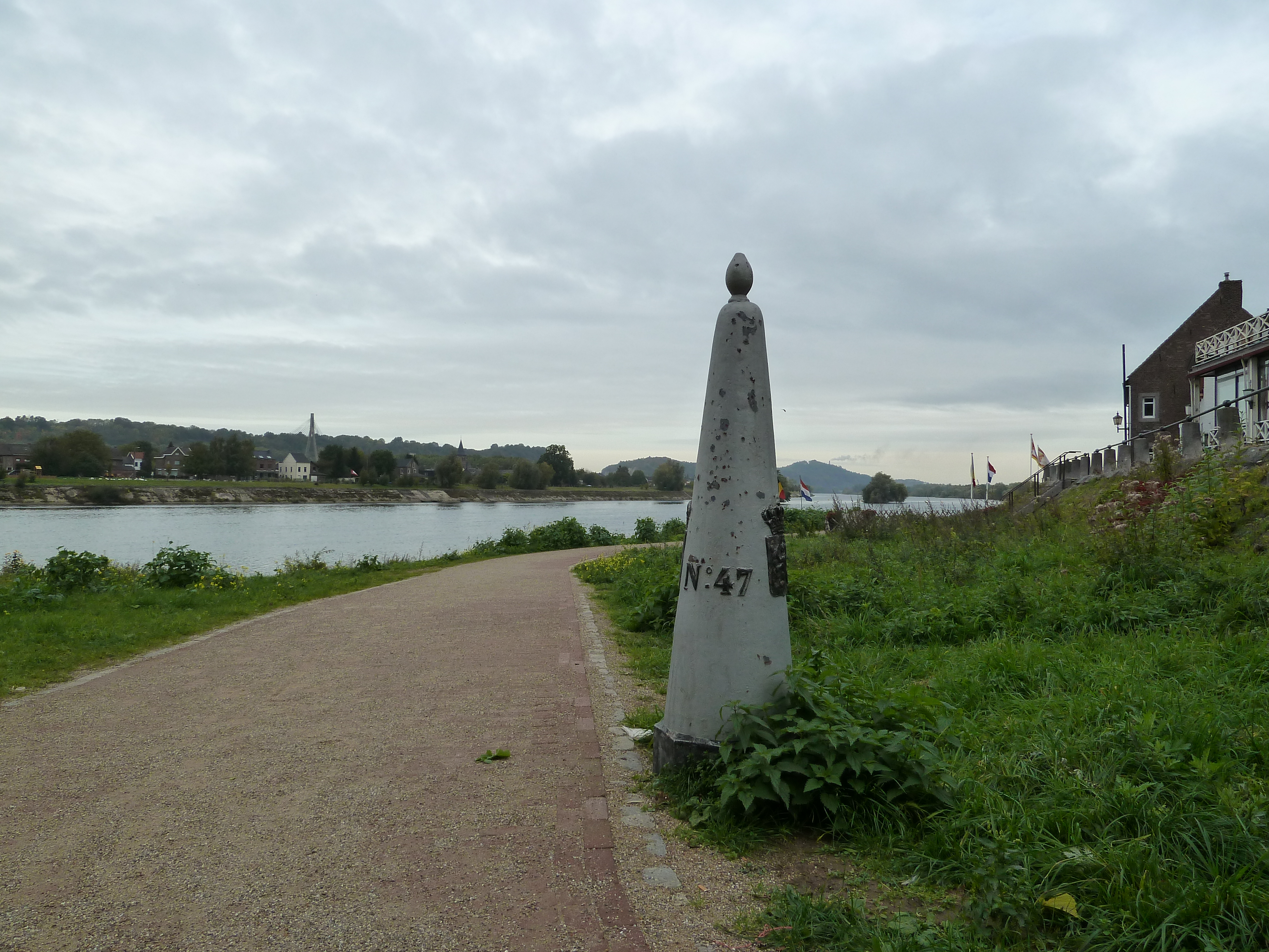 Border pole 47, Eijsden, Limburg, the NetherlandsNederland